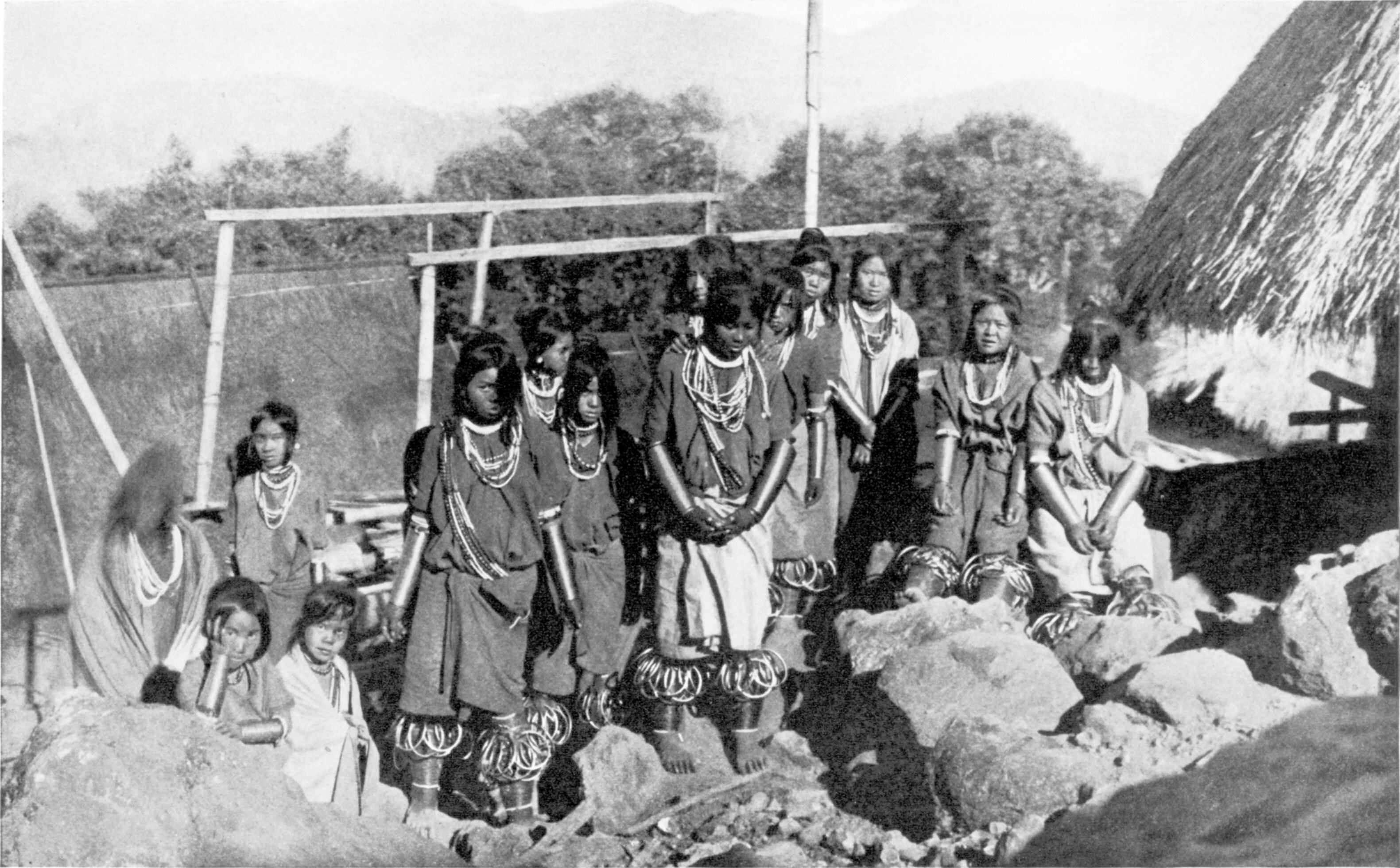 DAMES AND DEBUTANTES OF THE KAREN HILLS The background gives an idea of the topography of the region inhabited by the Red Karens - a jumble of steep hills with narrow valleys between. The paths are almost impassable for beasts of burden. The photogaph is from approximately 1905.